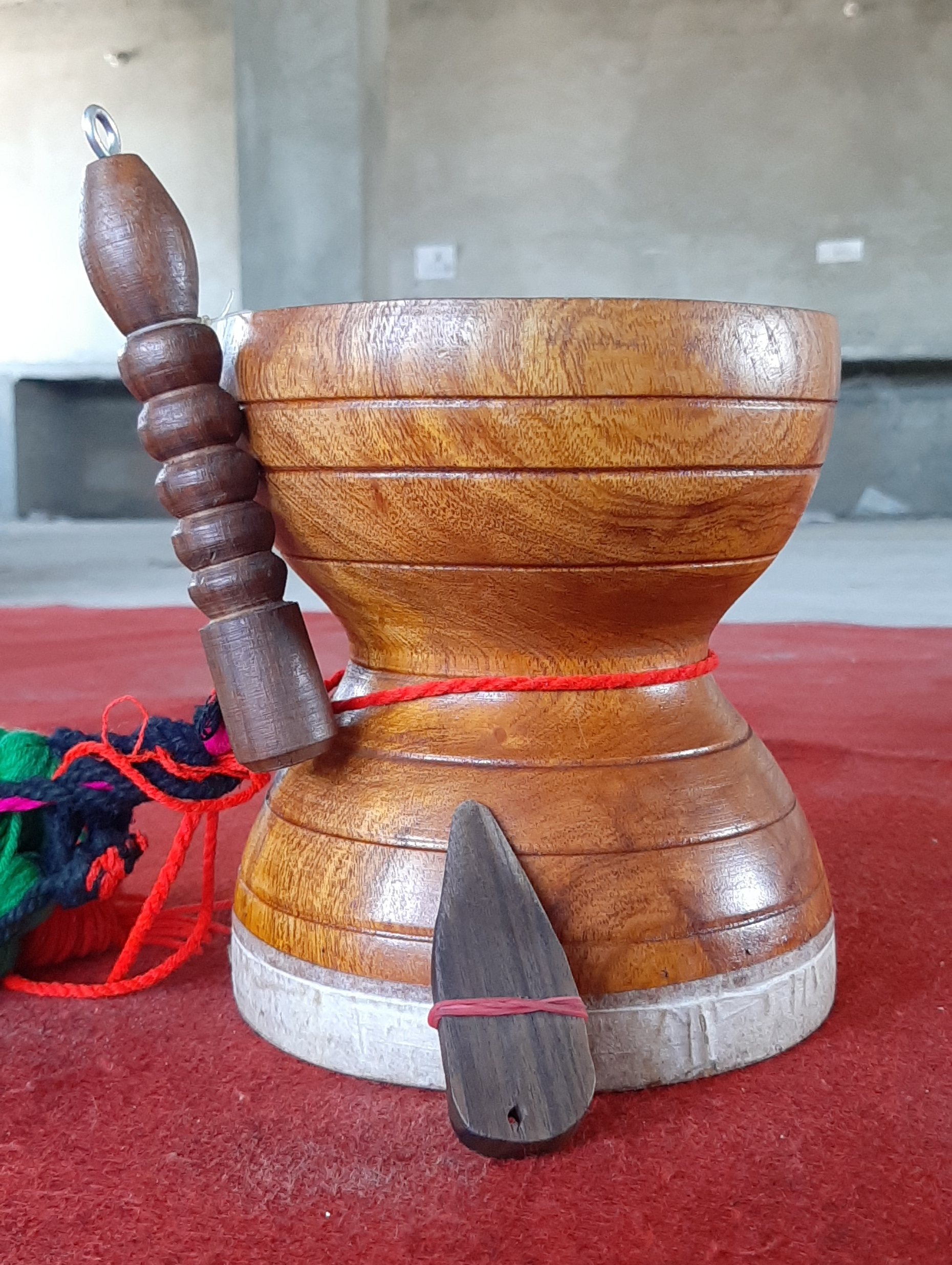 A traditional musical instrument native to the Punjab region ਪੰਜਾਬੀ: ਪੰਜਾਬ ਖੇਤਰ ਦਾ ਇੱਕ ਰਵਾਇਤੀ ਸੰਗੀਤ ਸਾਜ਼